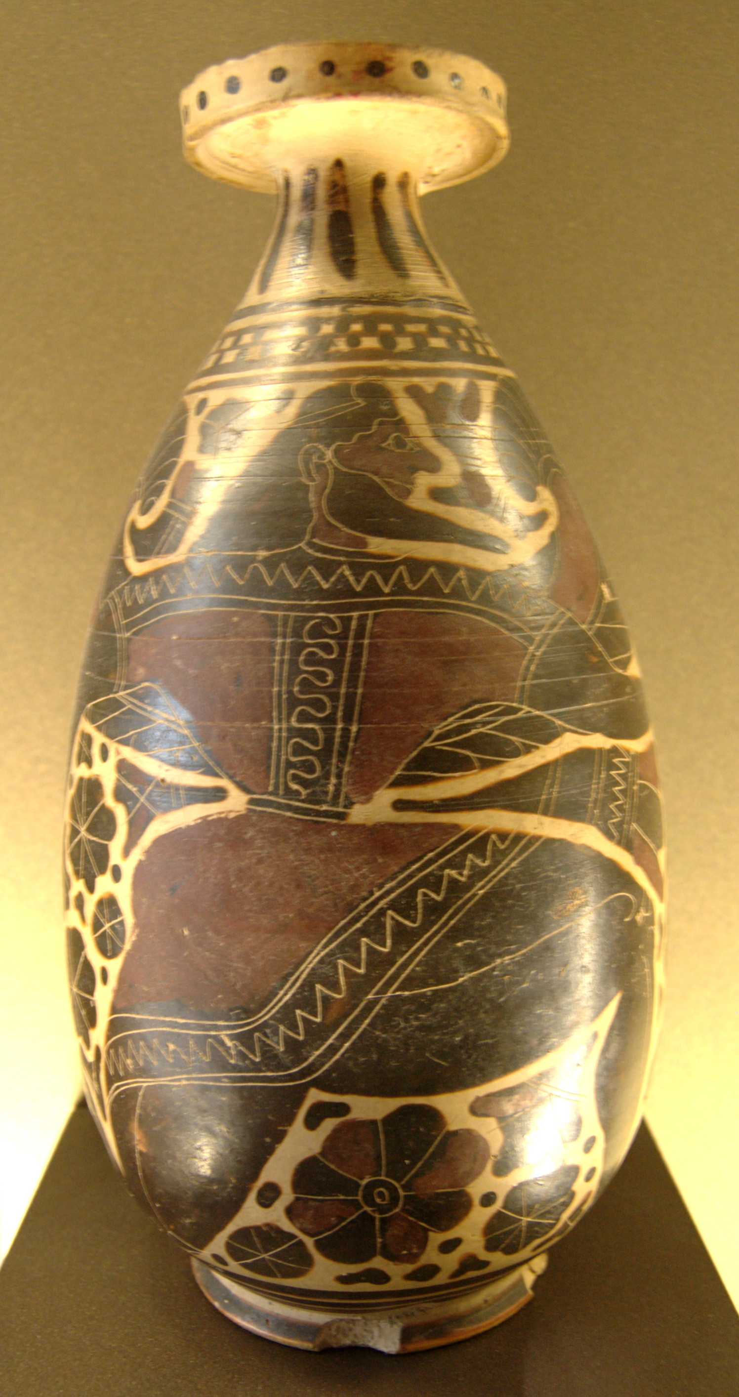 Winged genius (Boread?). Corinthian black-figured cup, 615–600 BC. From Tanagra.